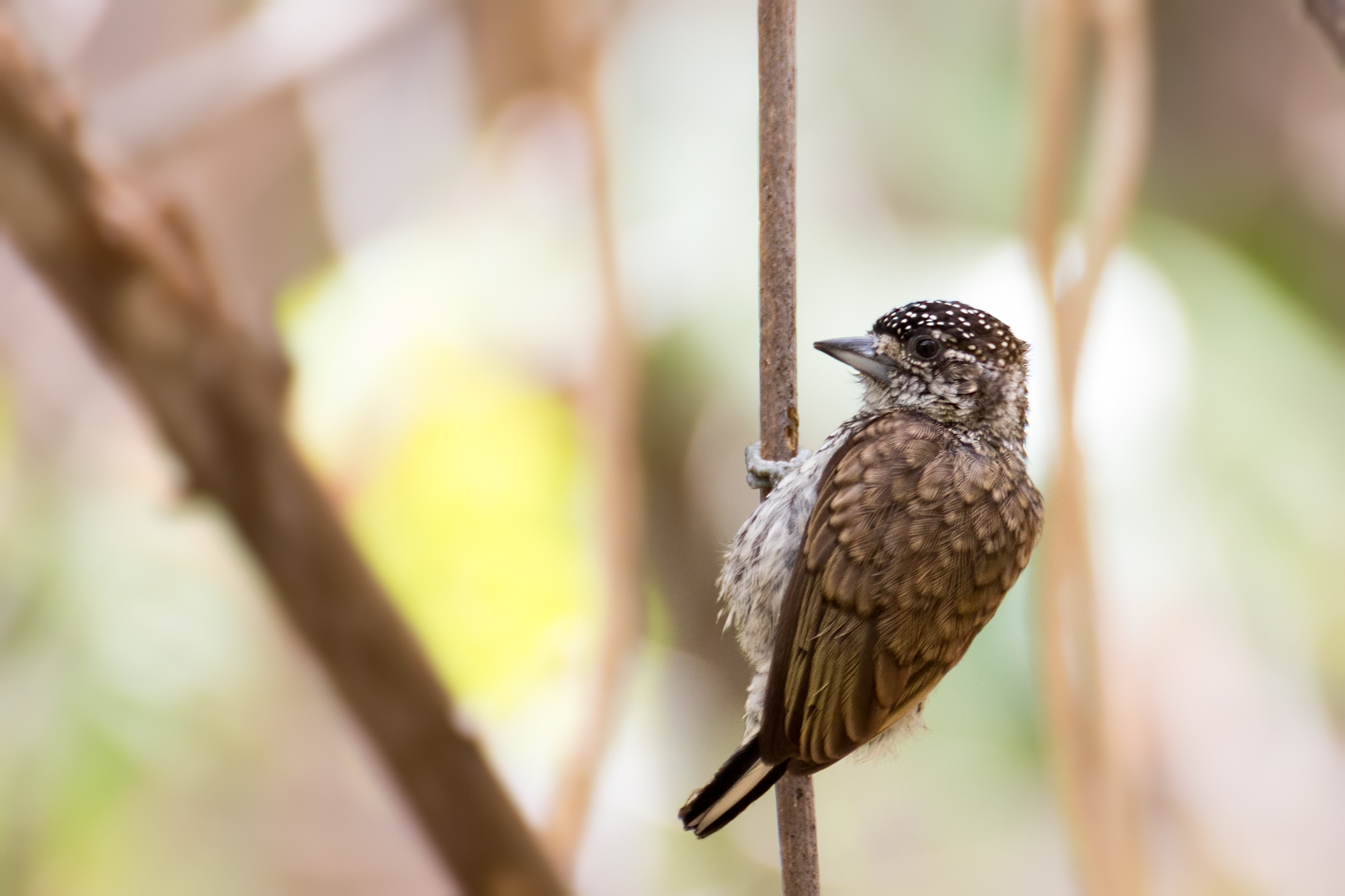 Scaled Piculet (Picumnus squamulatus rohli) (♀)